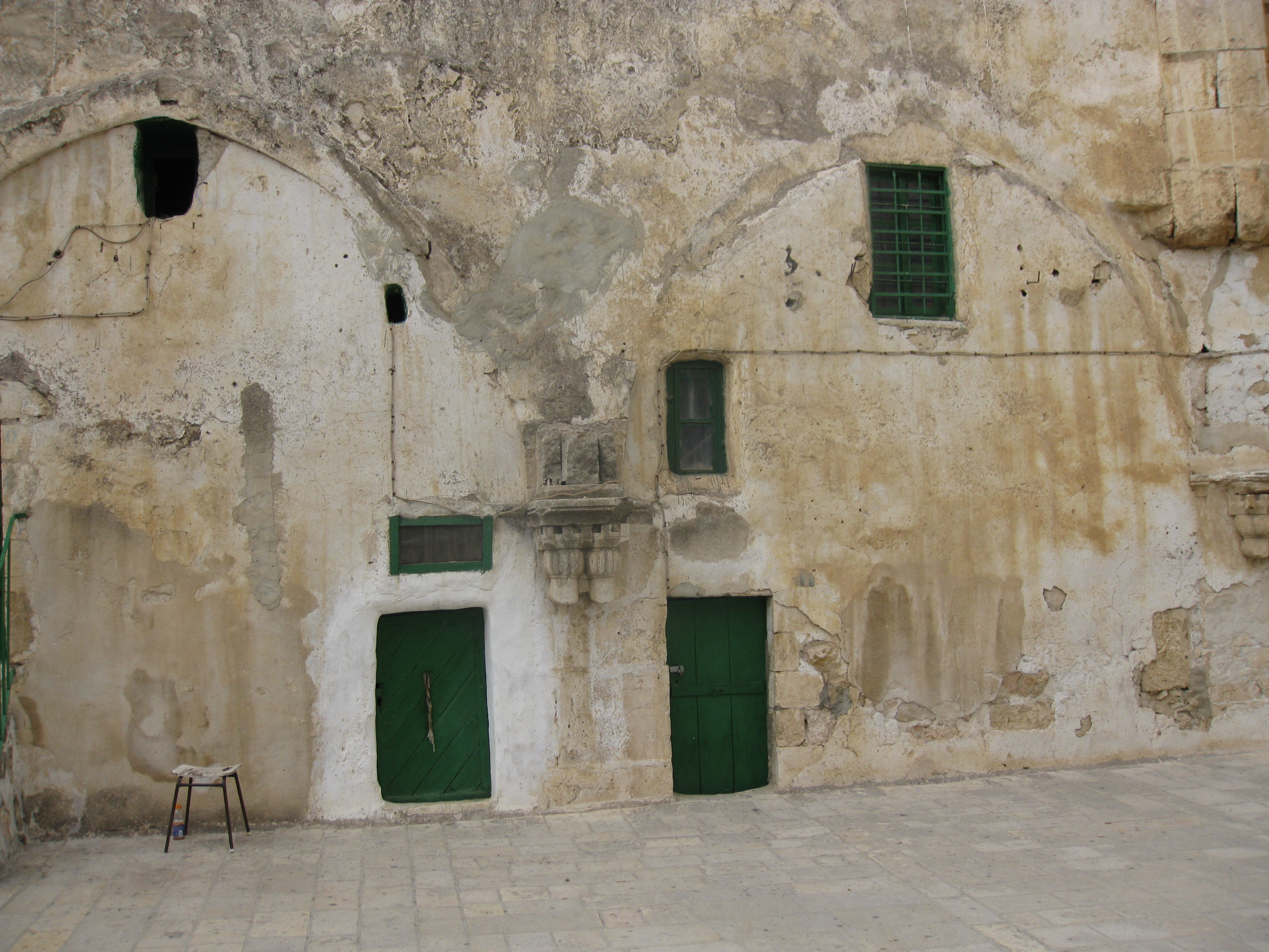 Deir Es-Sultan